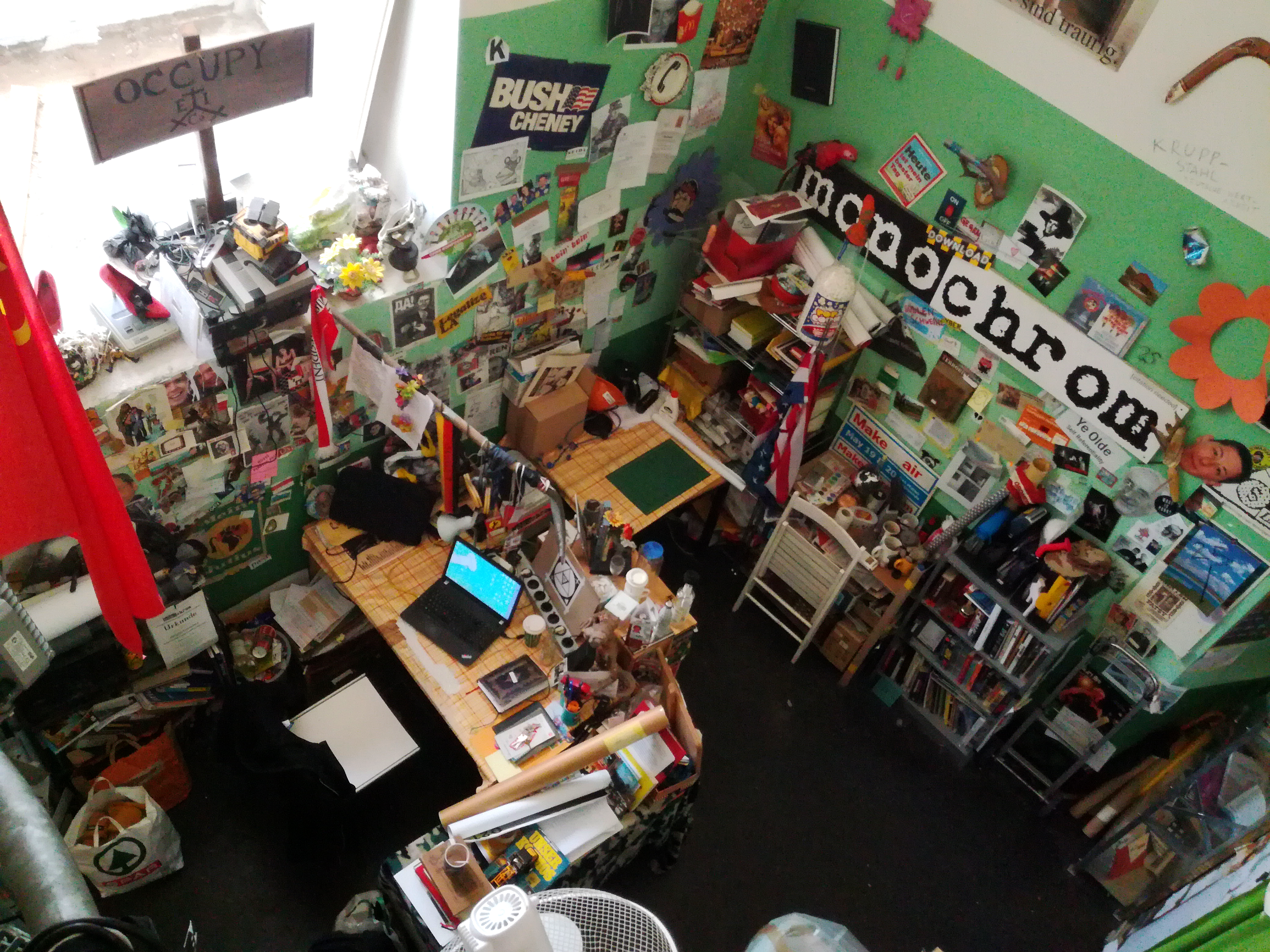 Art-theory group monochrom's office and workspace at Museumsquartier's Quartier21 (December 2018).